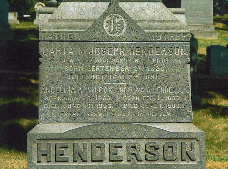 This is the tombstone of Captain Joseph Henderson from the Green-Wood cemetery in Brooklyn, New York.